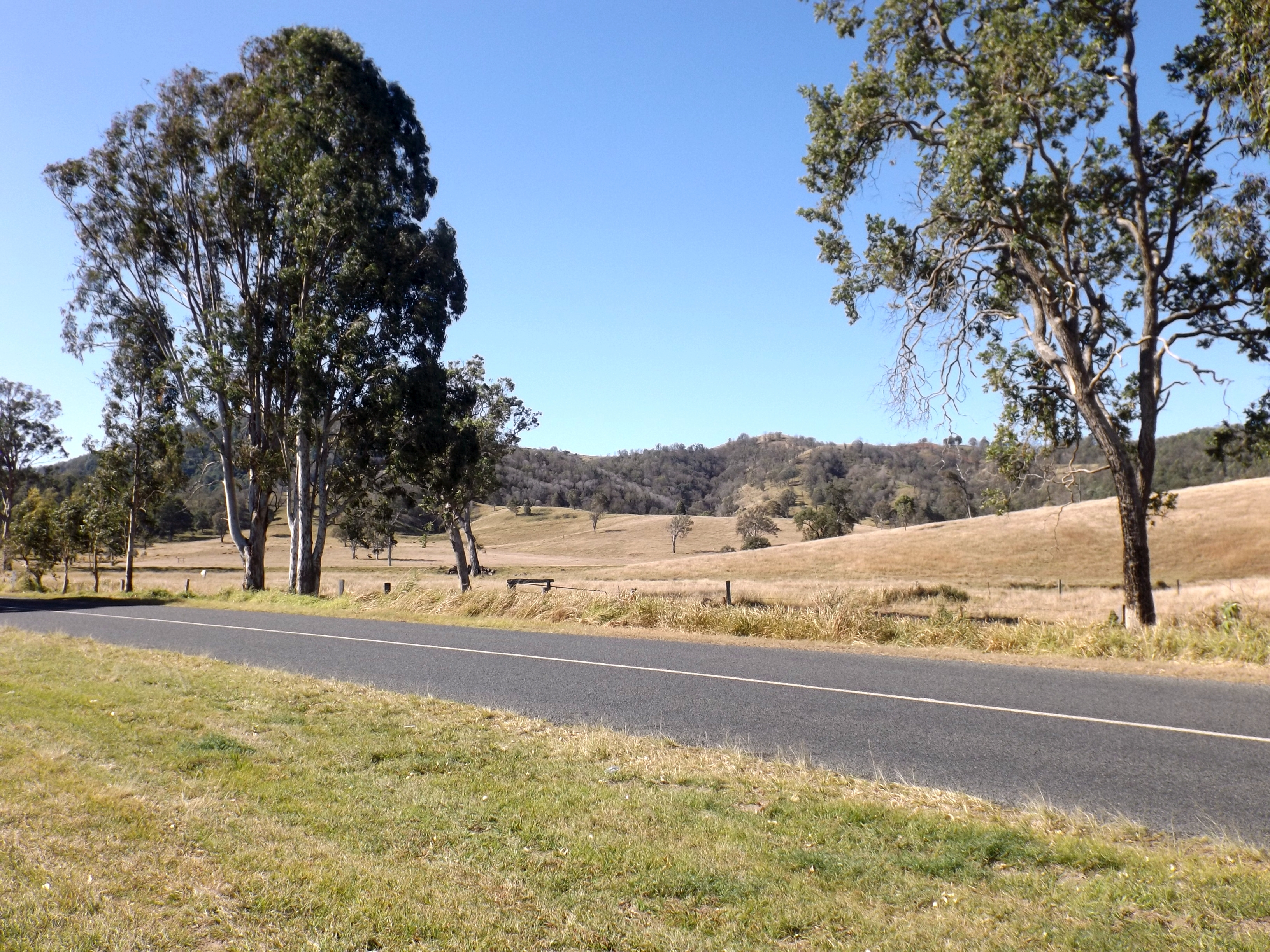 Photo of Mount Kilcoy Road at Winya, Somerset Region, Queensland, Australia.